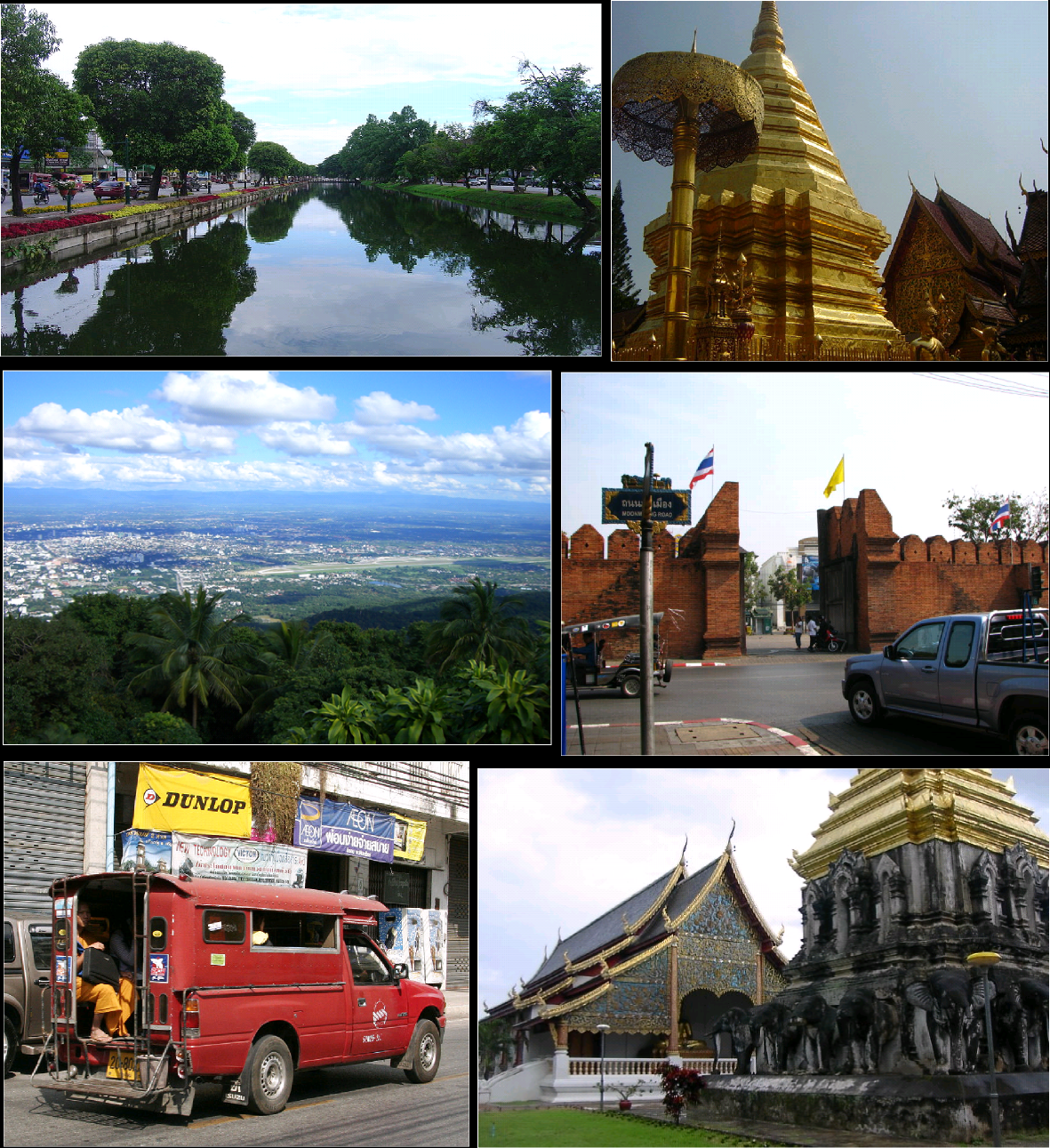 This image is a montage of already existing images on Wikipedia and Wikicommons